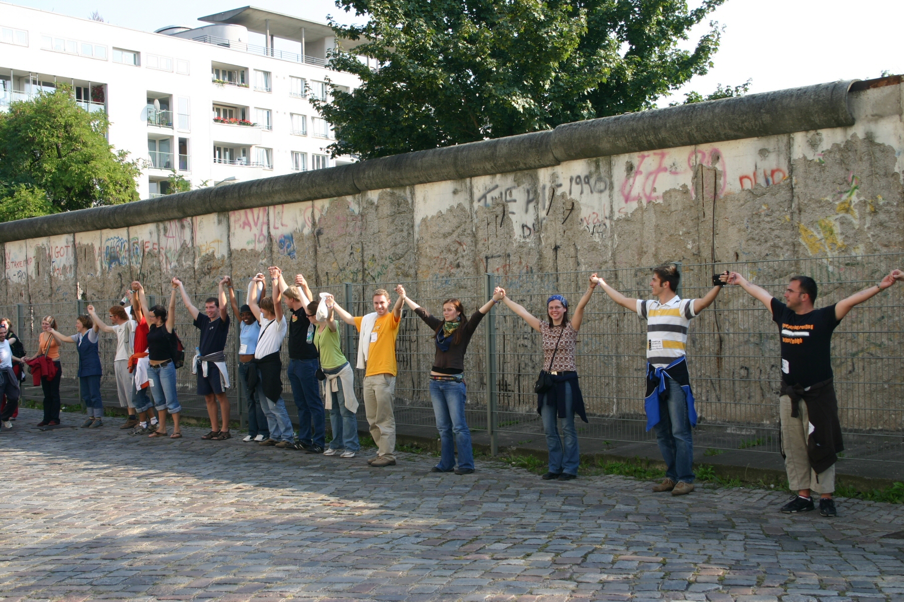 The picture was taken in front of the Berlin Wall during the Berlin Beach Camp (an annual gathering of all the Hospex communities)